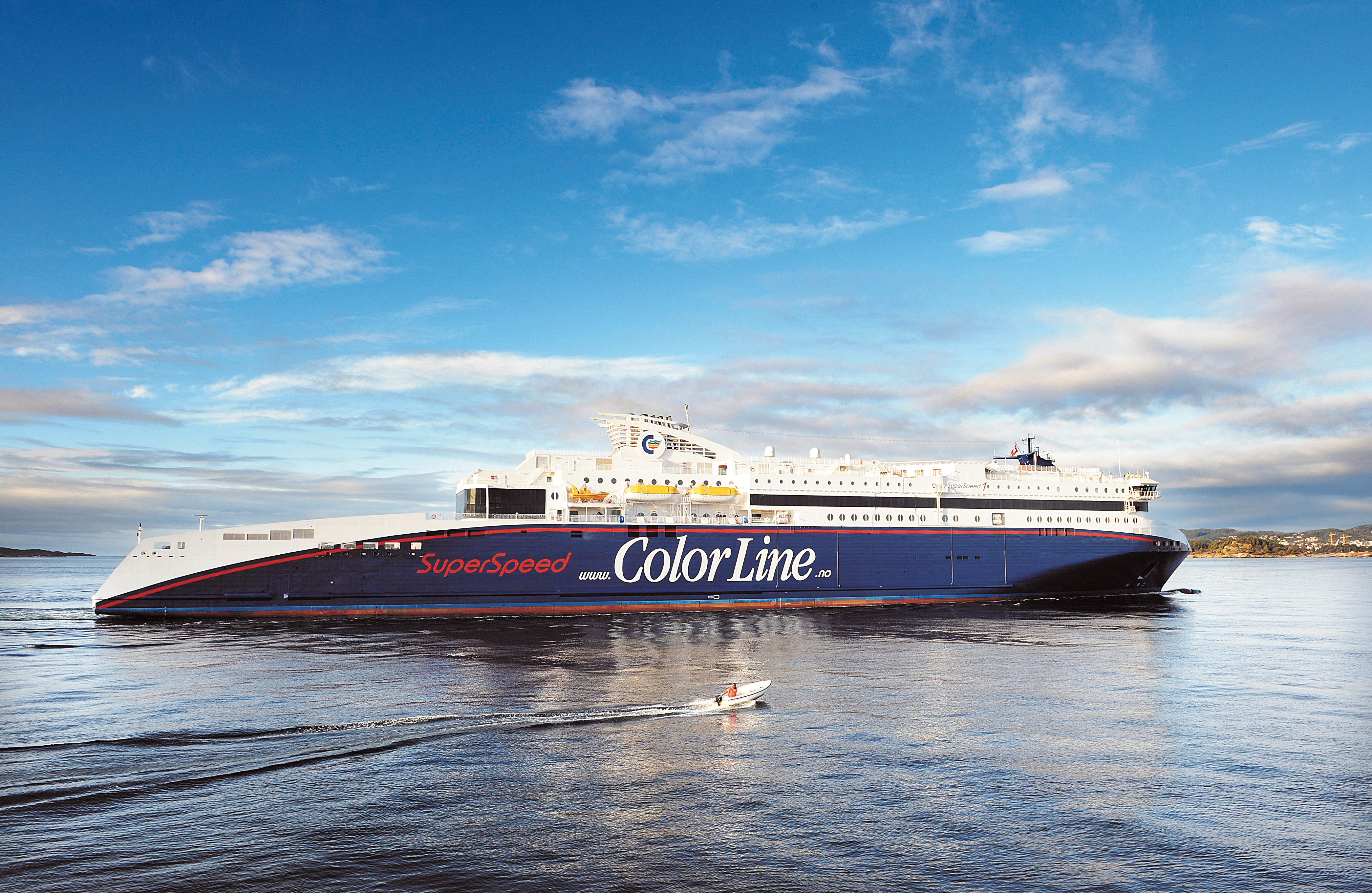 SuperSpeed 1 trafikkerer linjen Color Line betjener mellom Kristiansand – Hirtshals. SuperSpeed 1 sailes on the route Color Line operate between Kristiansand – Hirtshals. Photo: Anders Martinsen